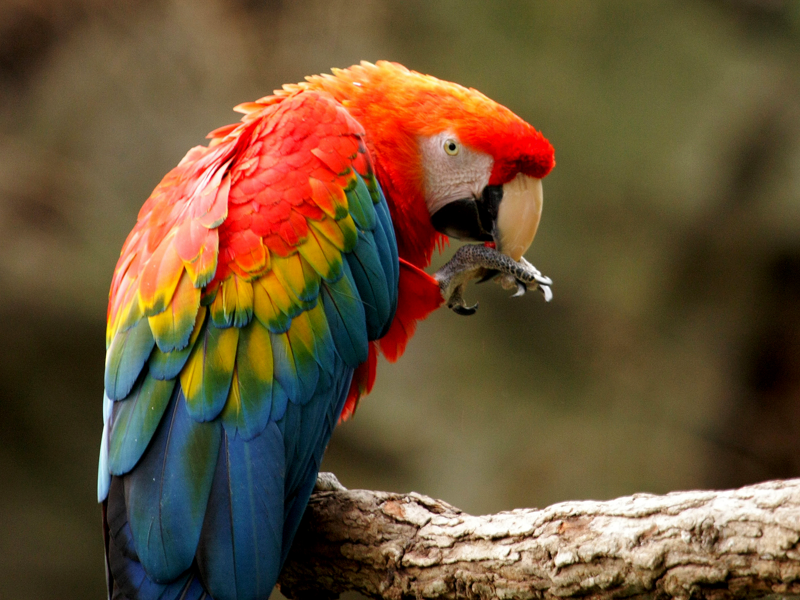 This has the appearance of a Scarlet Macaw, which have a variable amount of green in the wings. The exact pedigree of this zoo parrot may be known by the zoo.